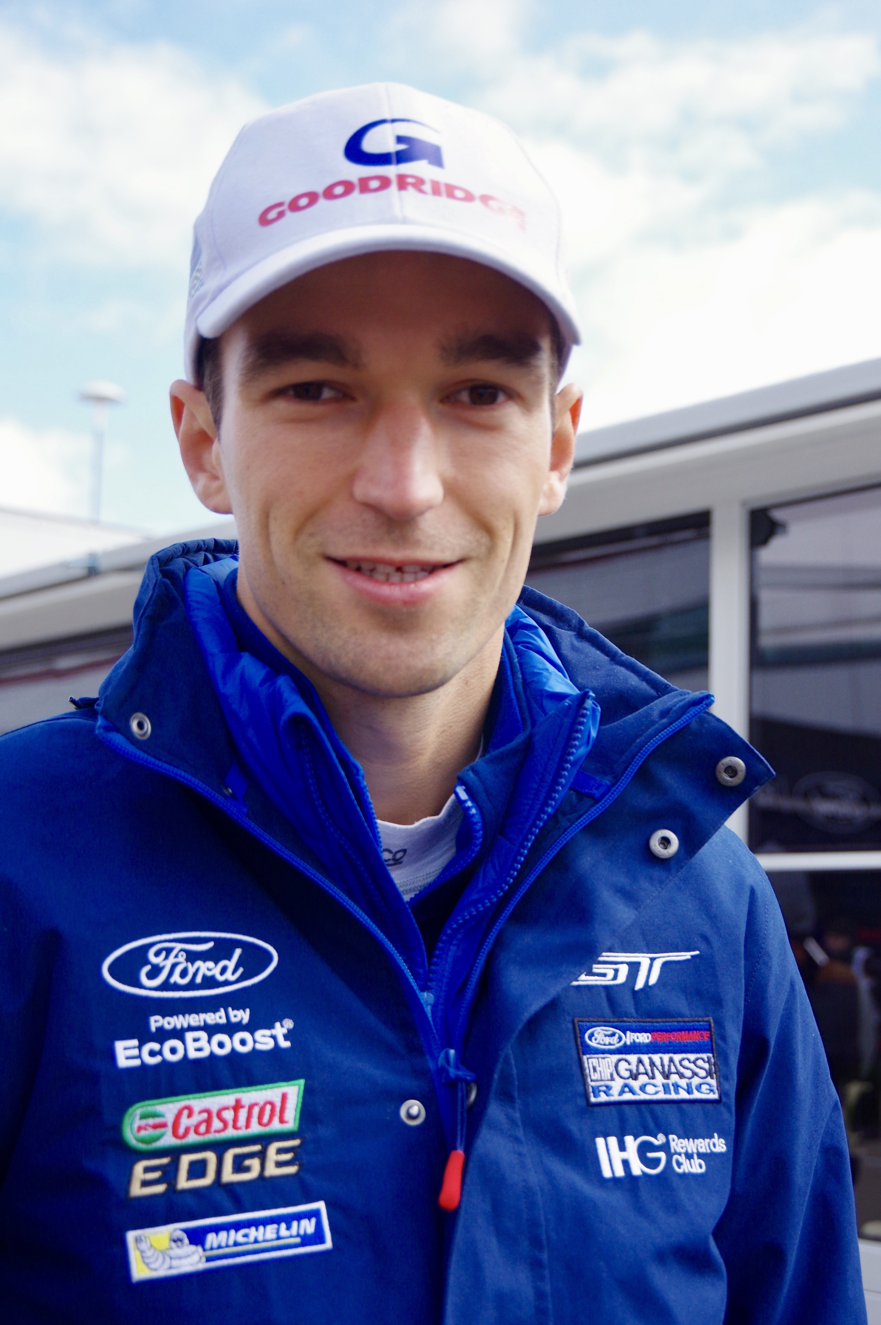 Ford Chip Ganassi Team UK driver Harry Tincknell at the 2017 6 Hours of Silverstone